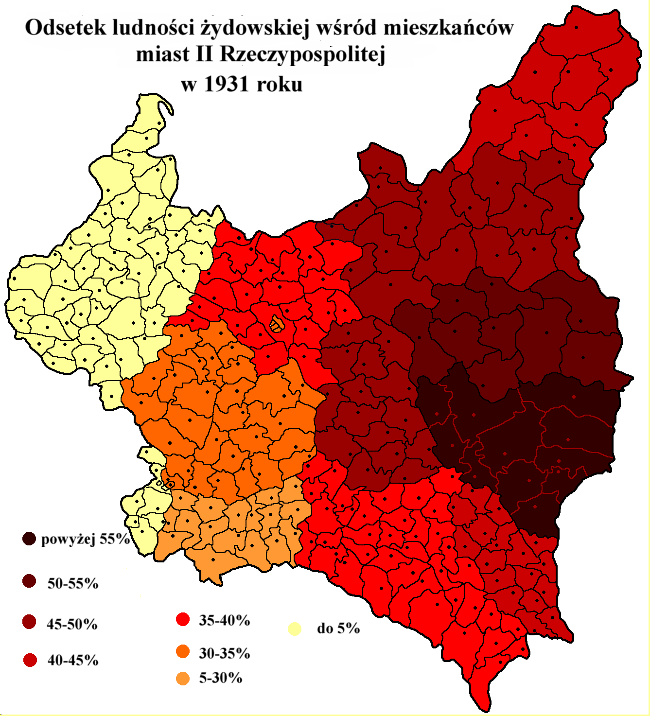 Percentage of the Jewish population in the cities of the Second Polish Republic in 1931